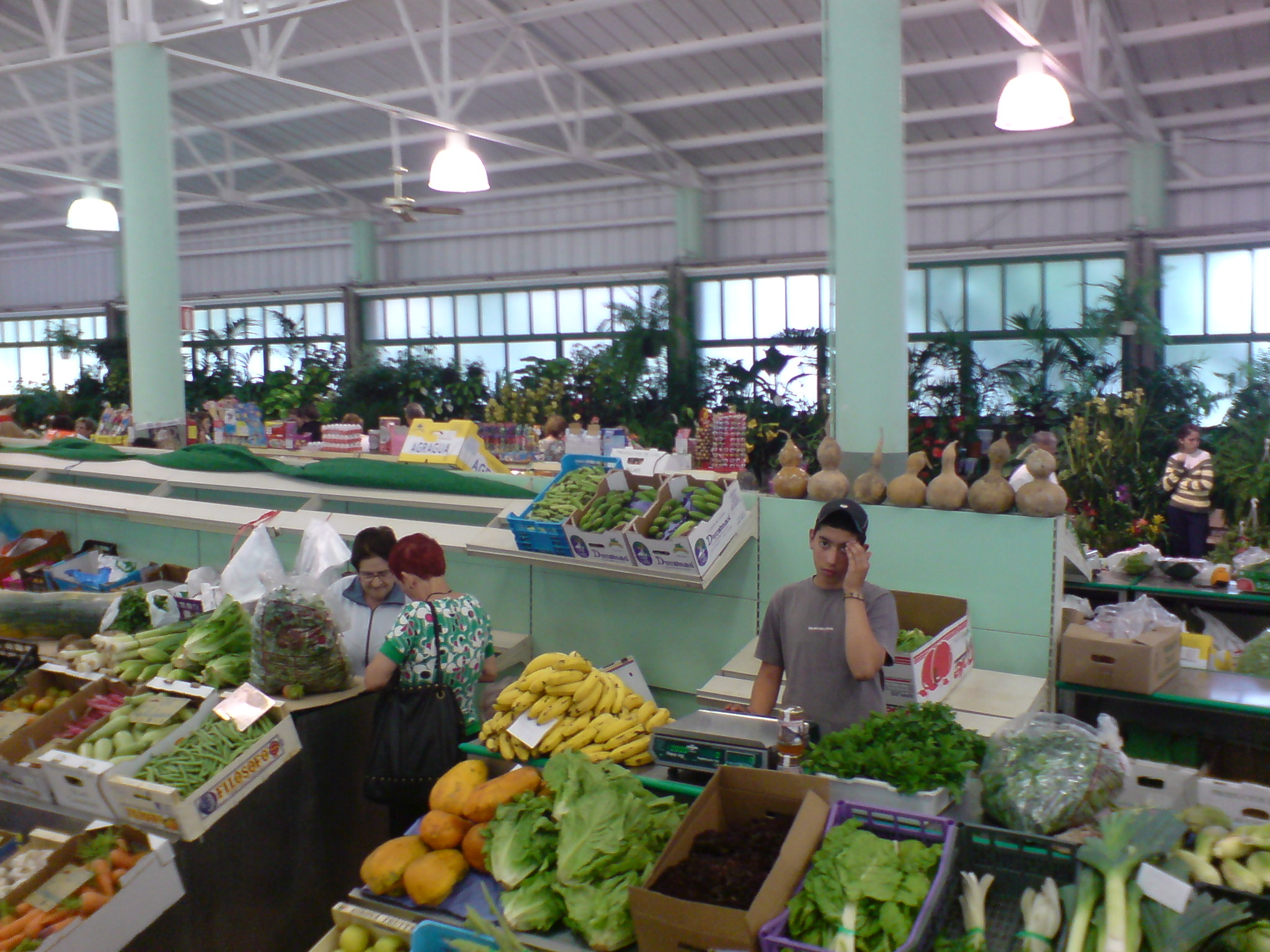 Vega de San Mateo Agricultural market, Gran Canaria (Canary Islands)